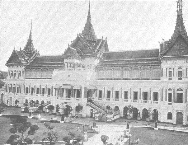 Phra Thinang Chakri Maha Prasat circa 1870